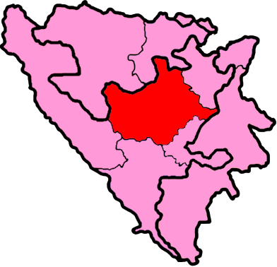 The fourth electoral unit of the Federation of Bosnia and Herzegovina (HoRBiH) shown within Bosnia and Herzegovina.